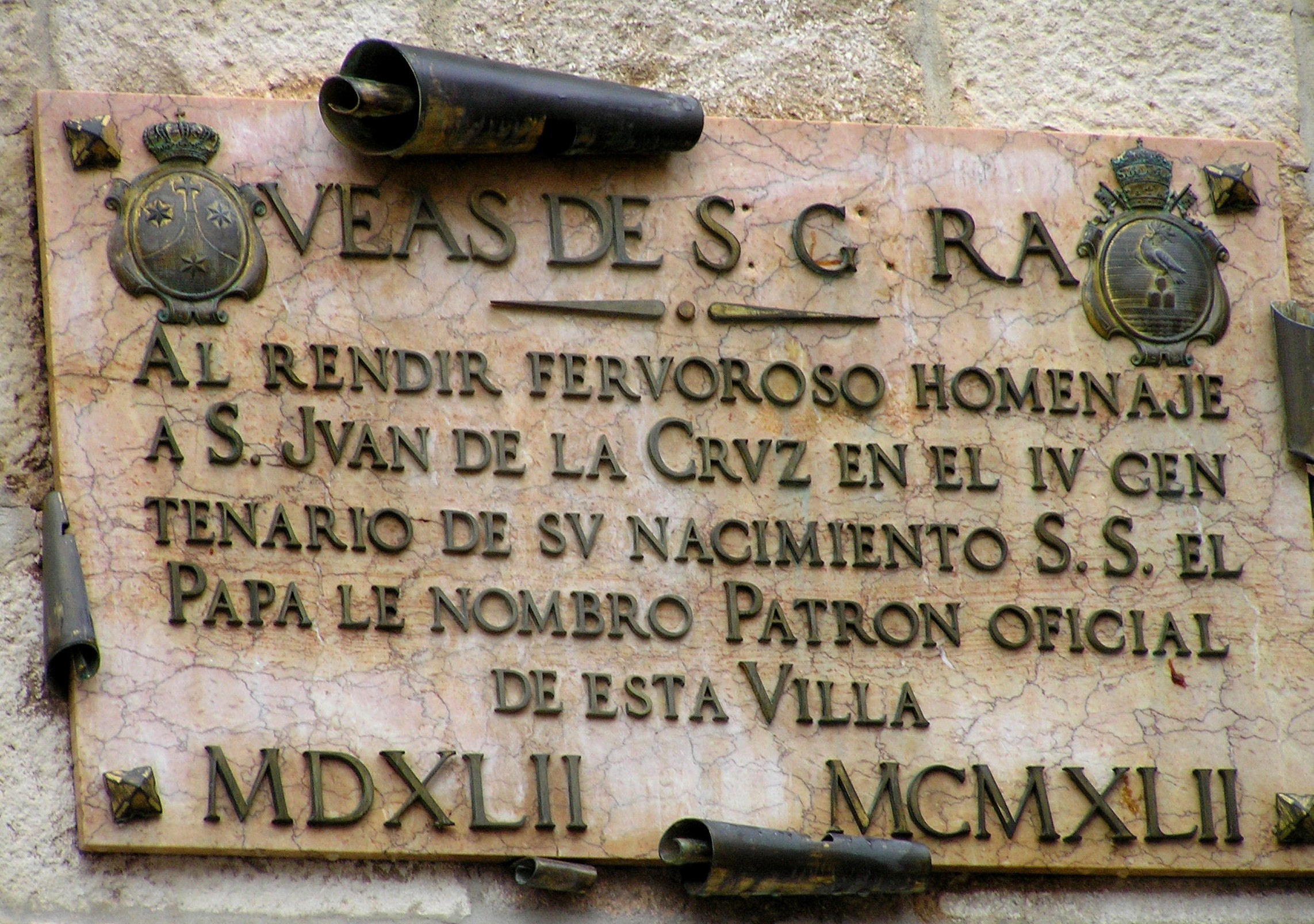 Placa en la Plaza de Santa Teresa.